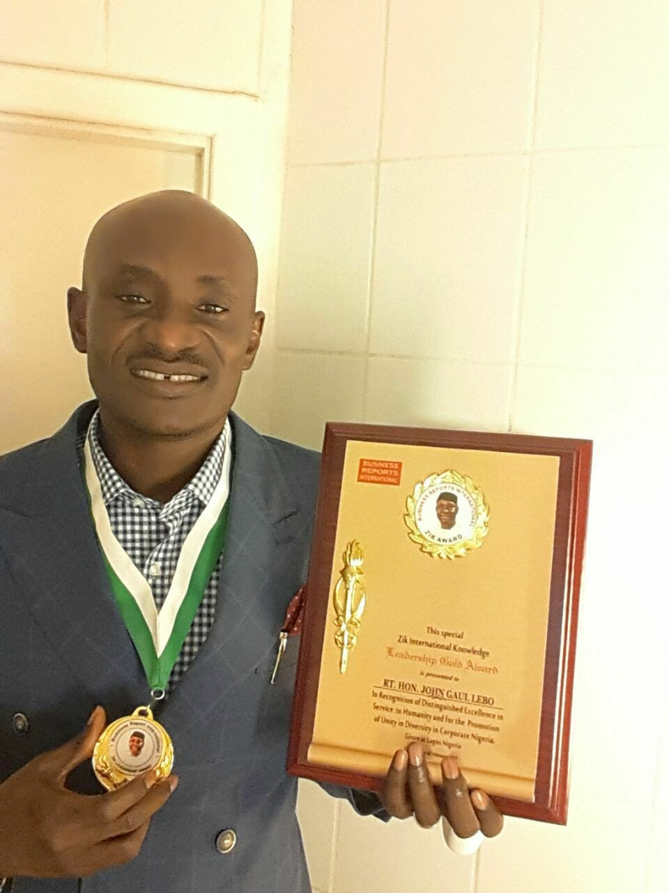 The Speaker after been bestowed with the international Zik's leadership prize award.